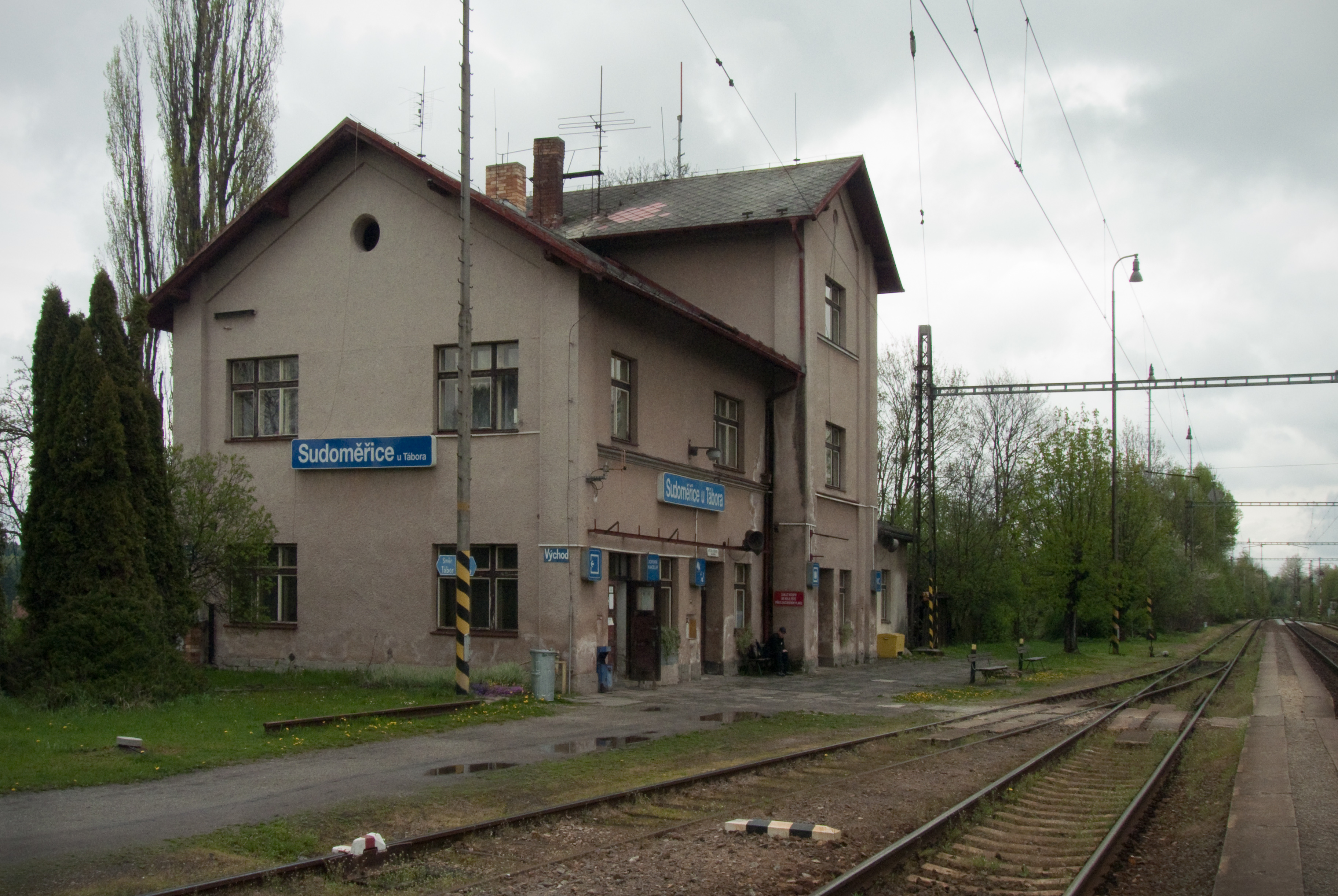 Train stop in the village of Sudoměřice u Tábora, Tábor district, Czech Republic